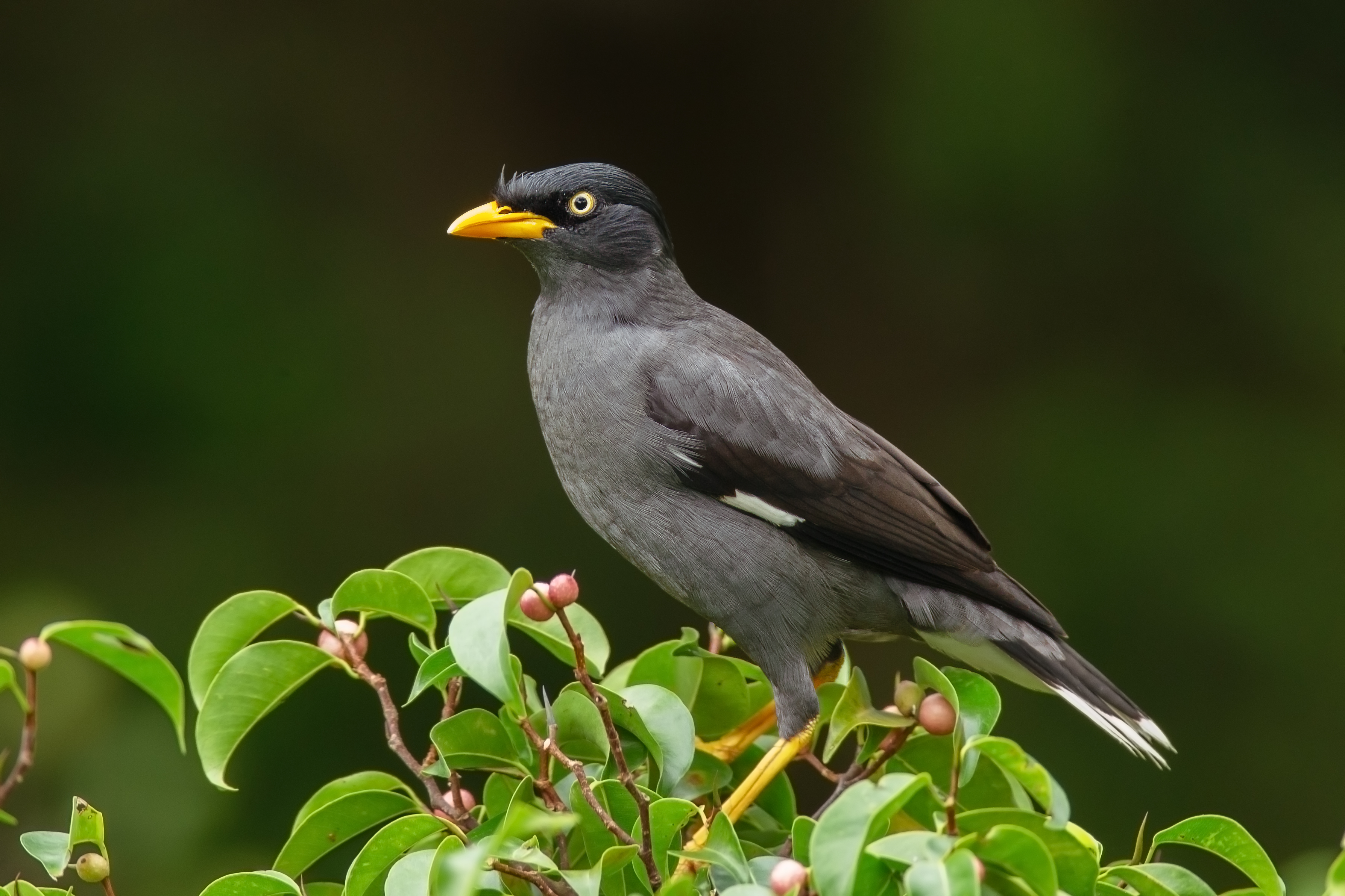 Javan Myna (Acridotheres javanicus), Kent Ridge Park, Singapore